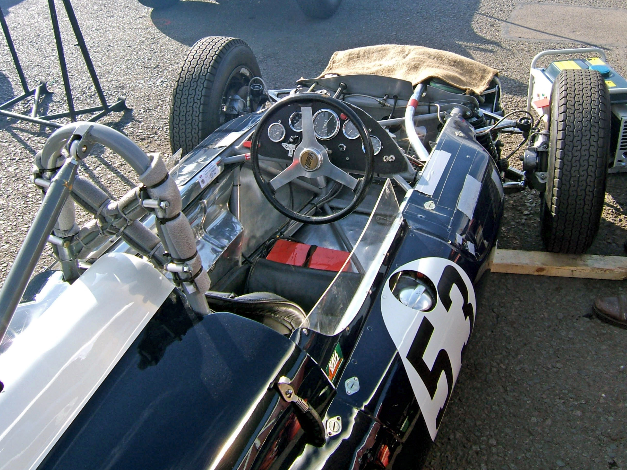 The cockpit of a Cooper T53 Formula One car in the paddock of the VSCC SeeRed race meeting, Donington Park, September 2007.